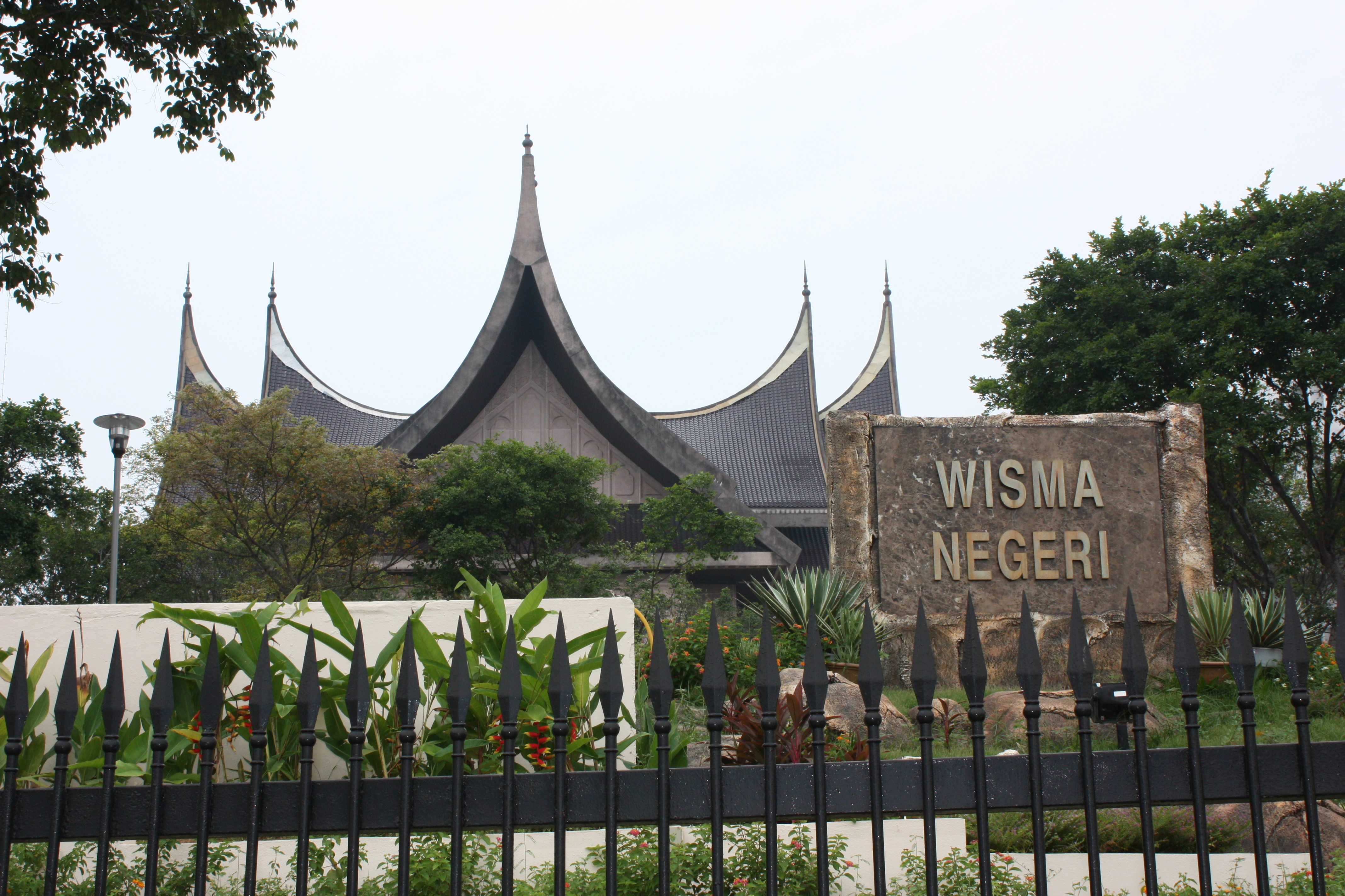 Photo of Wisma Negri in Seremban by Wolfgang Holzem /